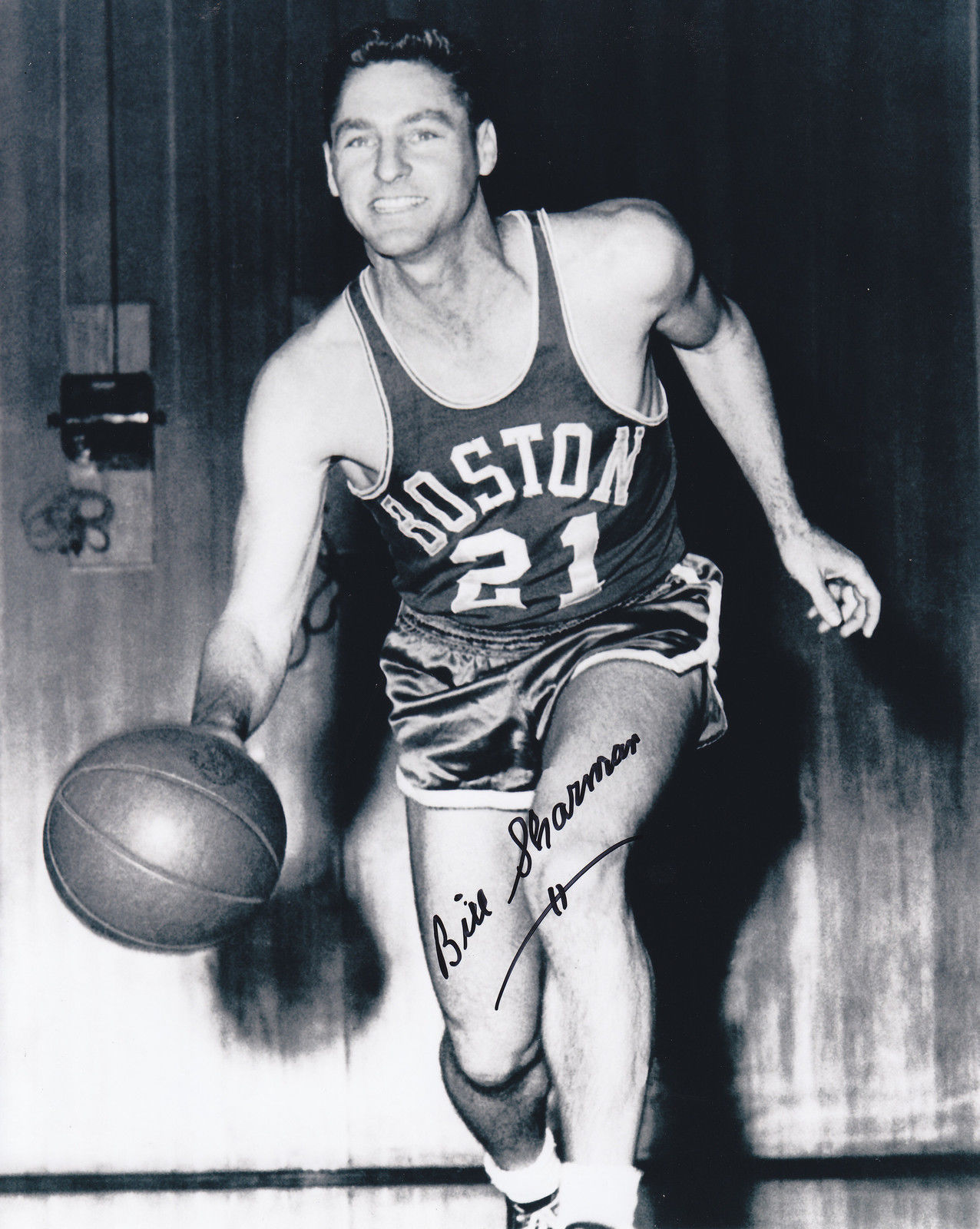 Signed photo of former basketball player Bill Sharman, wearing the Boston Celtics uniform where he played from 1951-61.